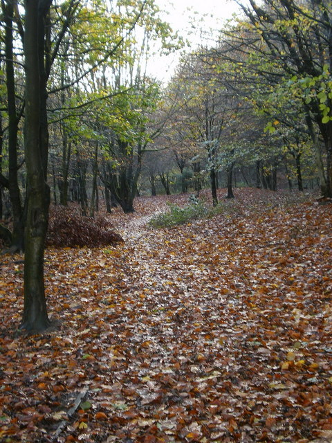 Footpath, Woodnook